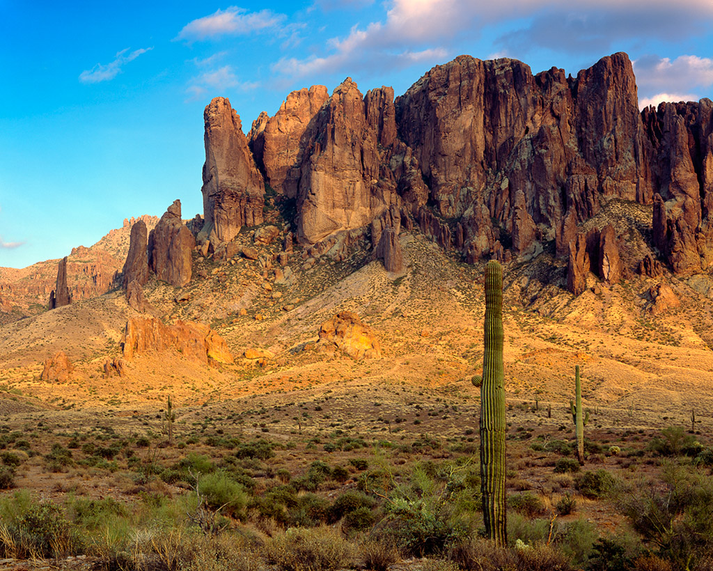 The Flat Iron in the Superstition Mountains as seen from the Lost Dutchman State Park in Arizona, USA. Arca Swiss 4x5 view camera, Fujichrome Provia 100F transparency film.